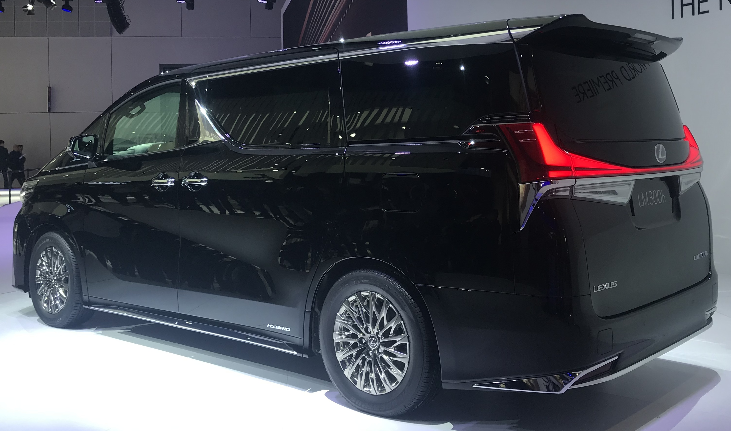 Lexus LM